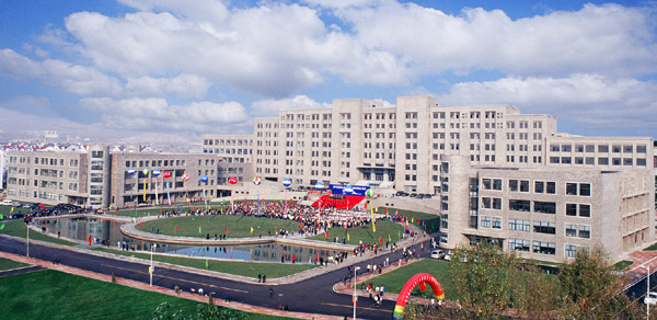 Dalian Polytecnic University, China